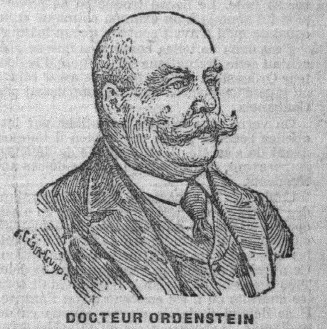 Dr Leopold Ordenstein